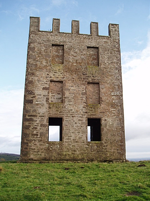 Kinpurnie Tower on Kinpurnie Hill, near Meigle, perth and Kinross. Built as an observatory by James Stuart-Mackenzie in 1766